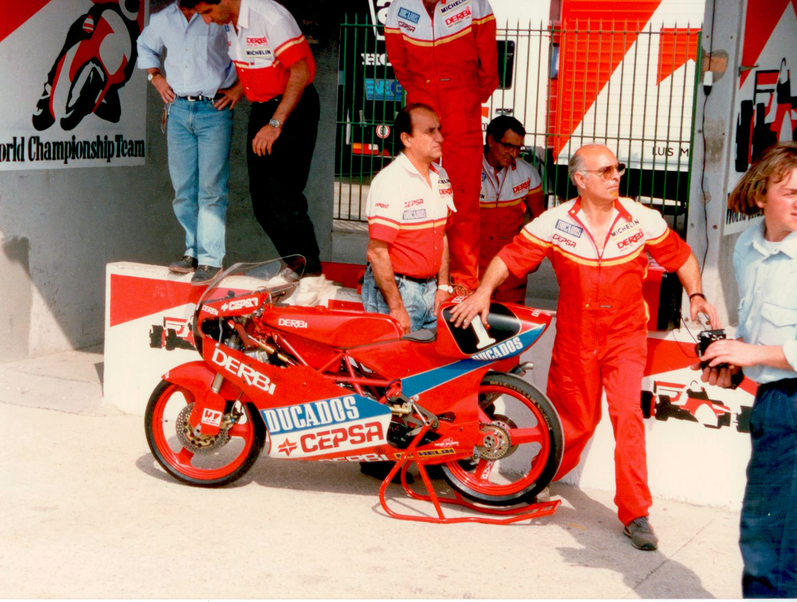 Paco Tombas and Jaume Garriga with the Derbi 125 of Aspar, in 1989